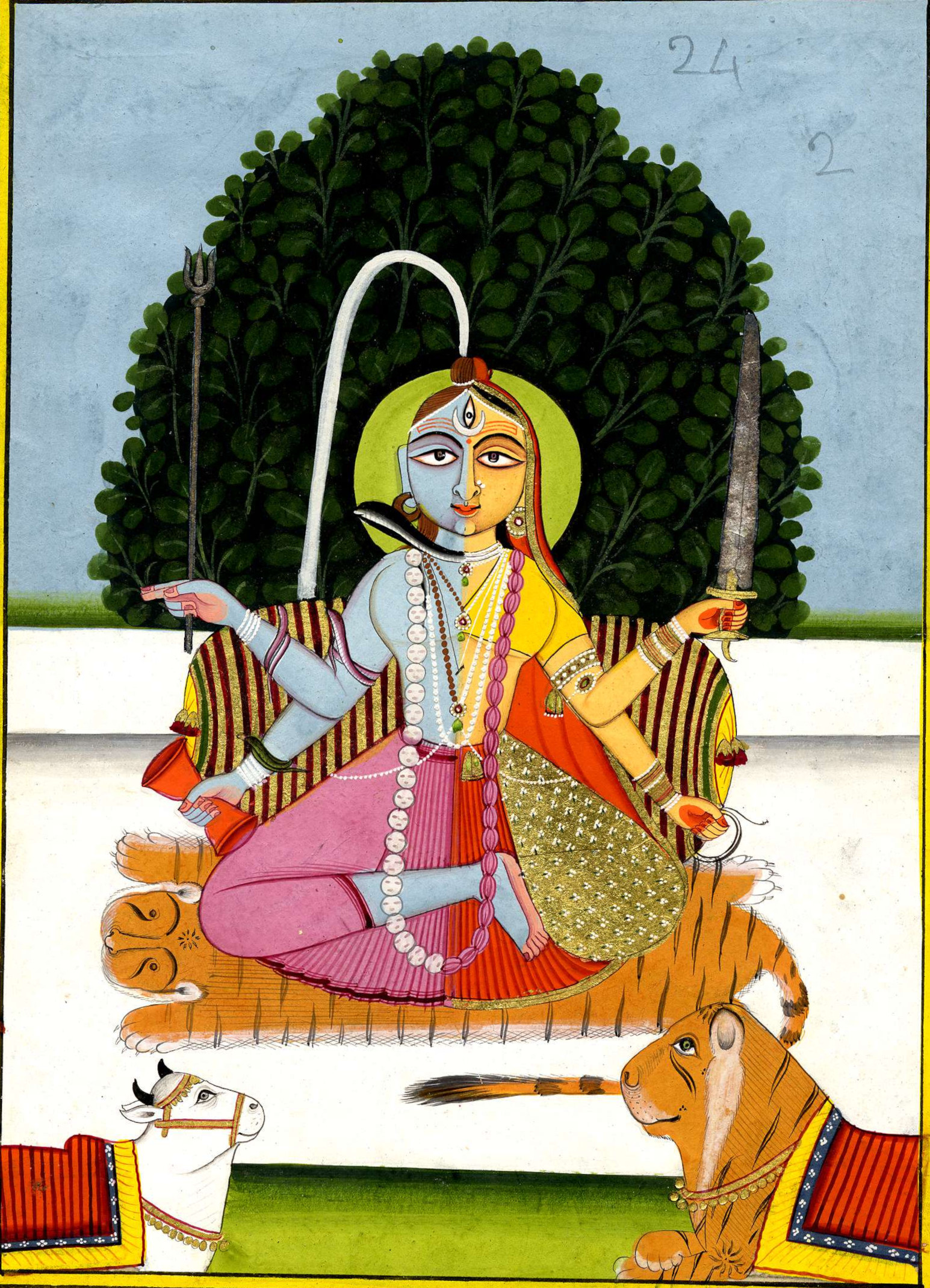 Ardhanarisvara